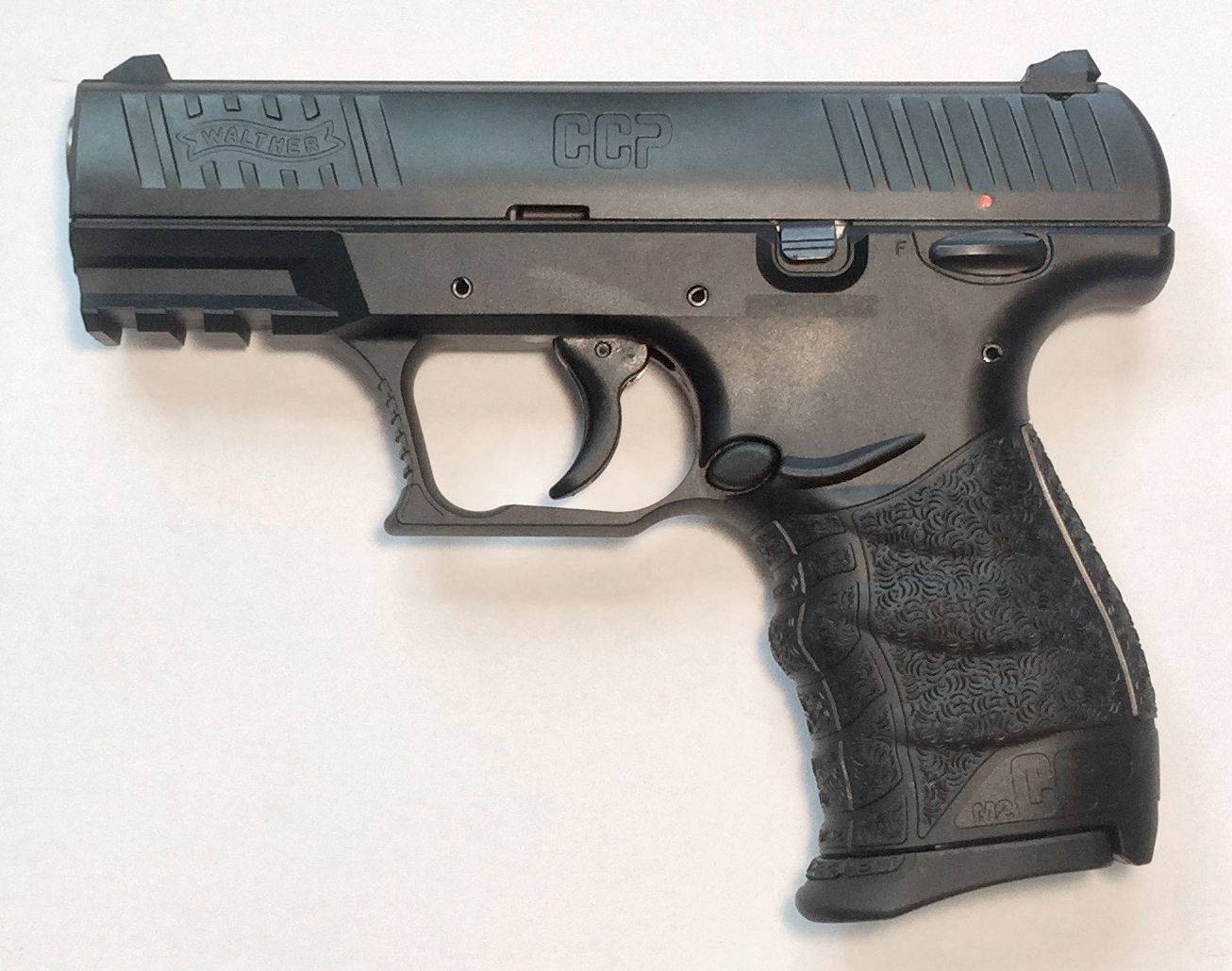 Walther CCP firearm